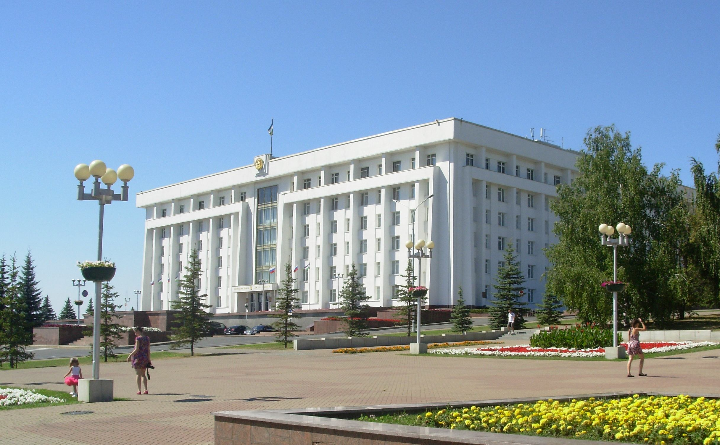 Ufa